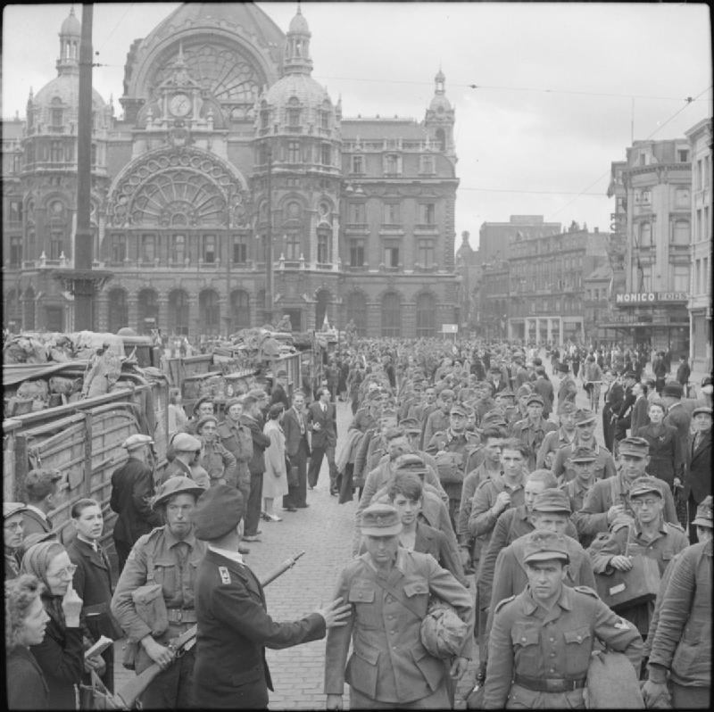 The British Army in North-west Europe 1944-45 German prisoners being paraded through the streets of Antwerp, 5 September 1944.